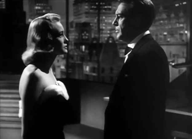 Gary Cooper and Patricia Neal in the film trailer for The Fountainhead (1949).